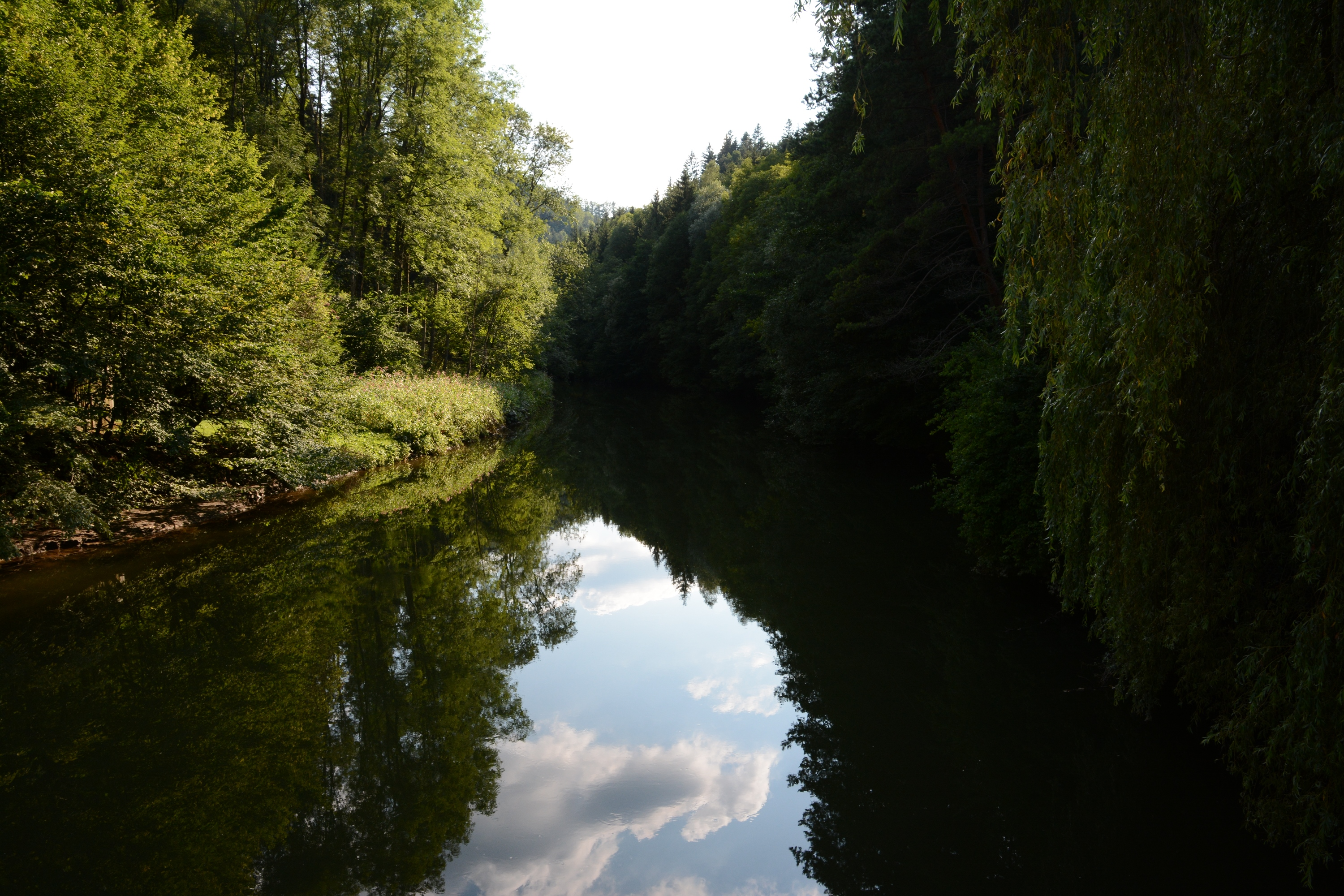 Feistritz River Floing Stubenberg